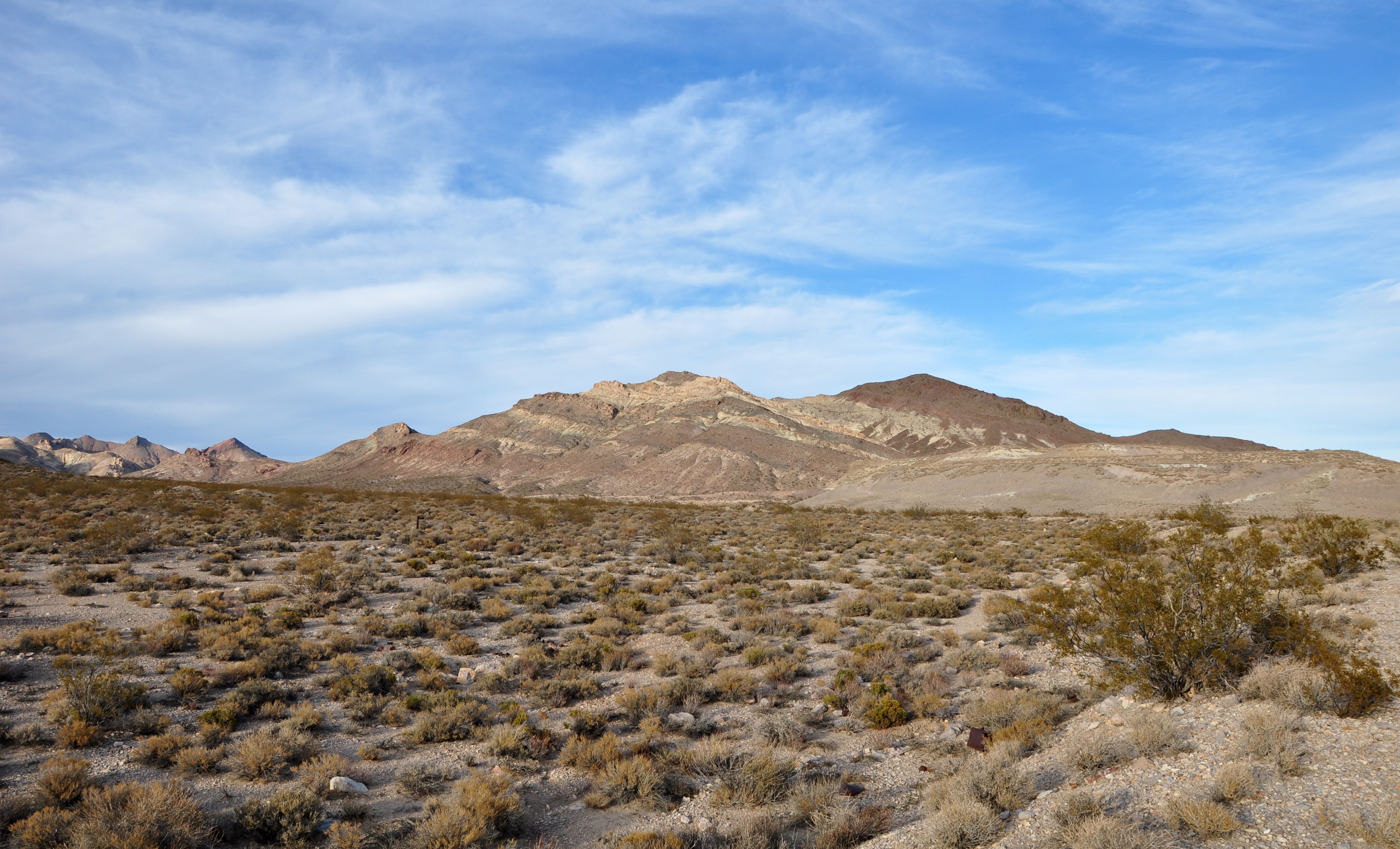 Amargosa Desert at the base of the Bullfrog Hills in southwestern Nevada, United States. The hills form the northern boundary of the desert, which extends south along the Amargosa River and the east flank of the Funeral Mountains to south of the community of Amargosa Valley. View is to the north from near the ghost town of Rhyolite.